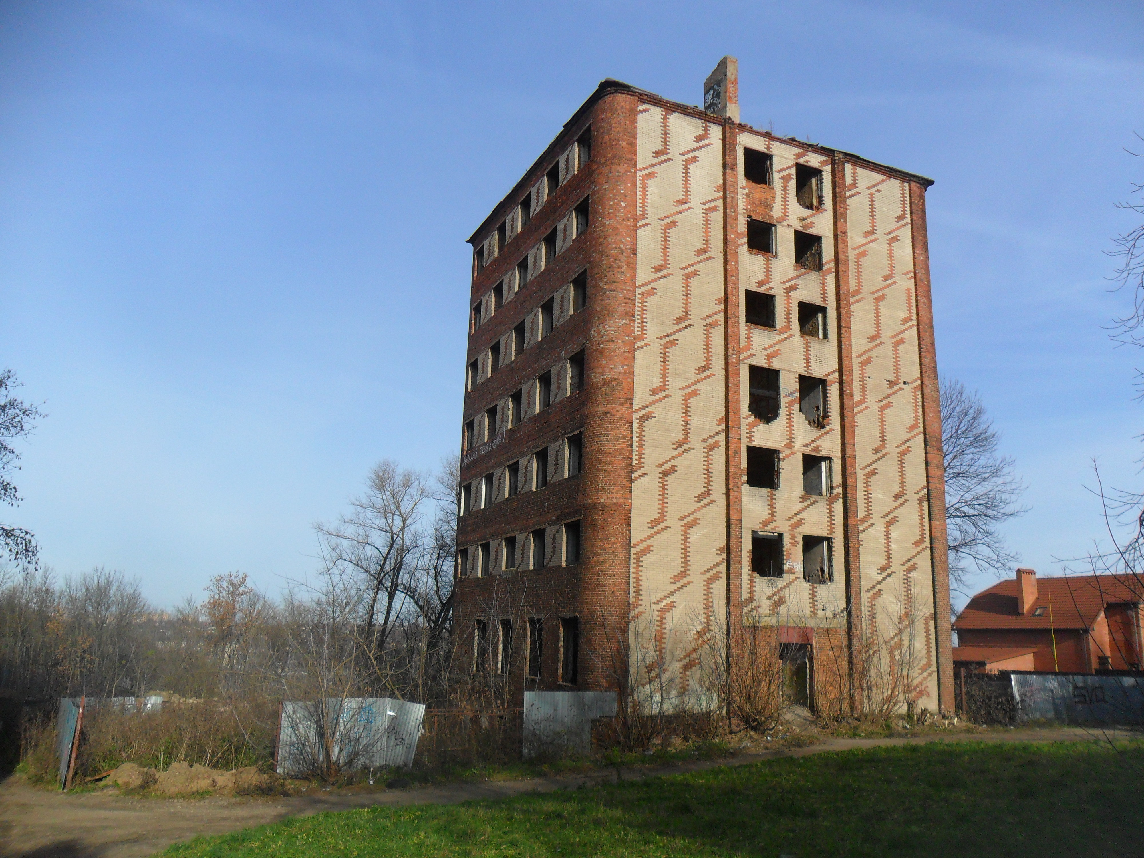 Smolensk, house-commune. Architectural monument of regional level. O. A. Vutke architect (1891-1938)